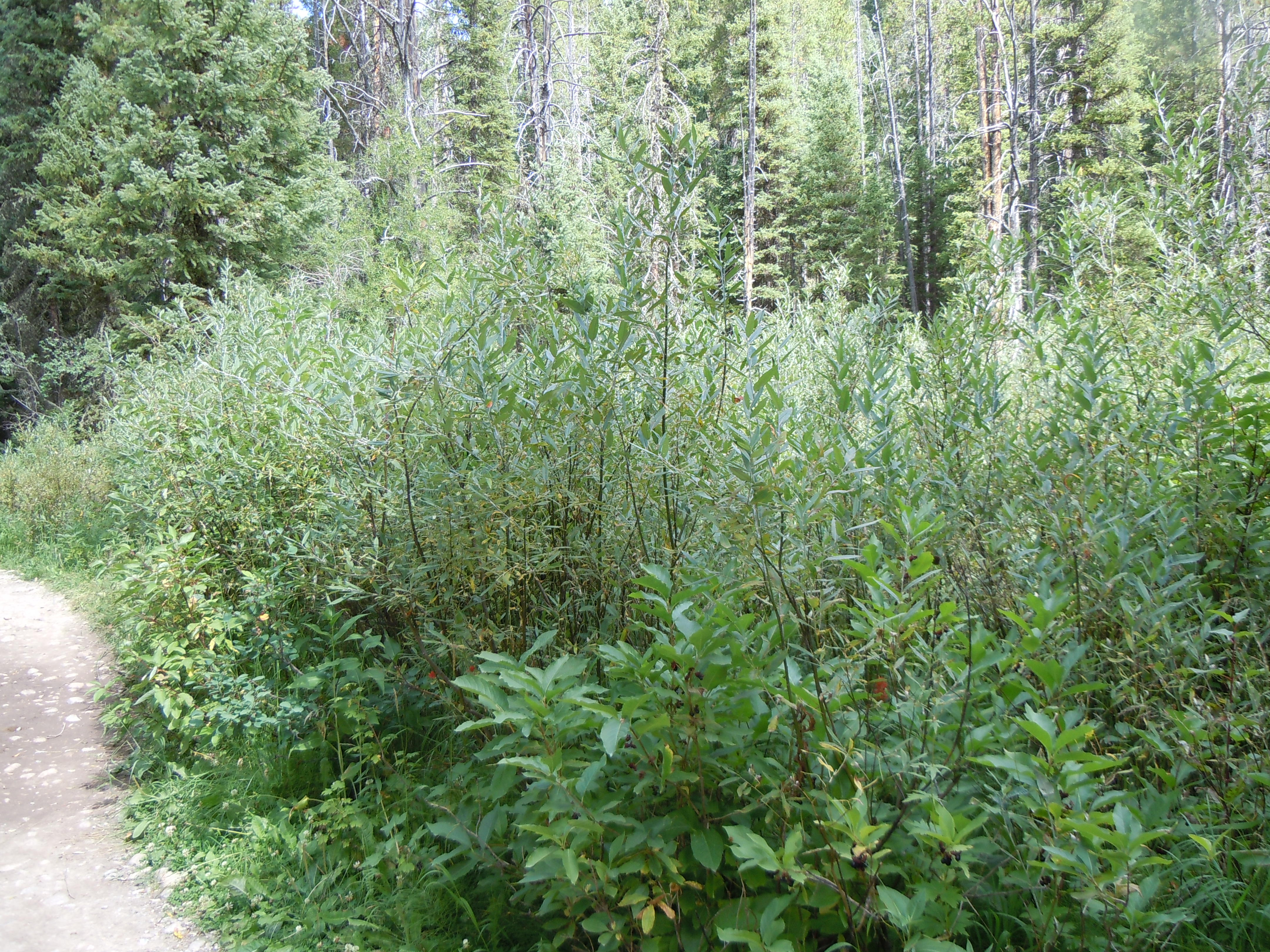 Often of montane riparian settings, Salix lemmonii can sometimes form pure stands.